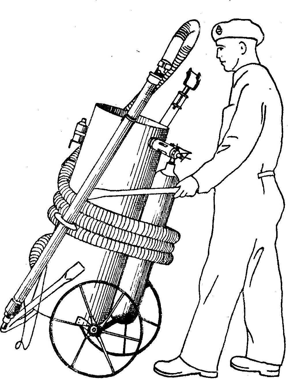 Harvey Flame Thrower from Military Training Pamphlet No 42 Tank Hunting and Destruction